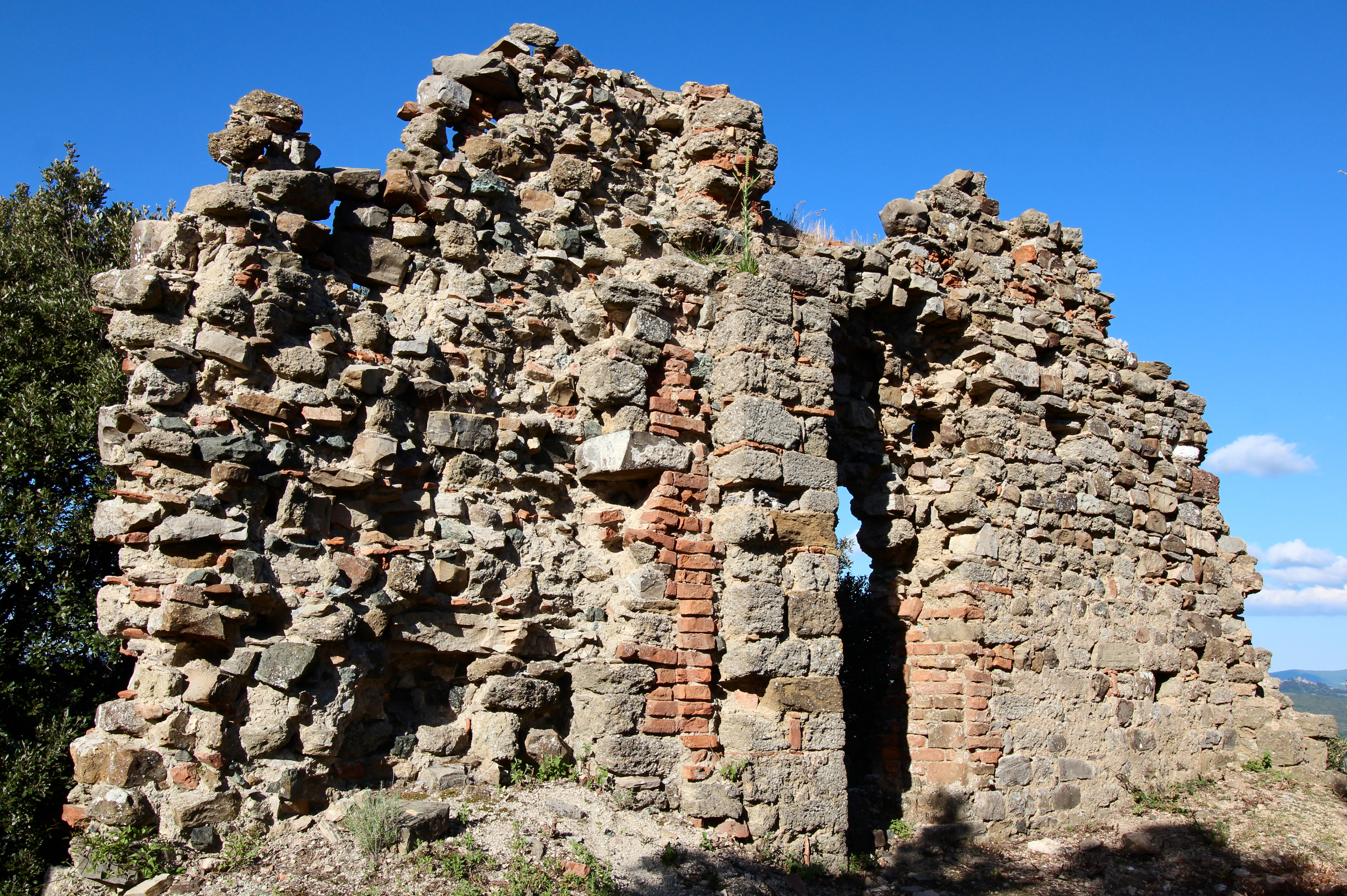 Church and Hermitage Ruin San Michele alle formiche, on the hilltop of the Poggio di Spartacciano, territory of Pomarance, Province of Pisa, Tuscany, Italy